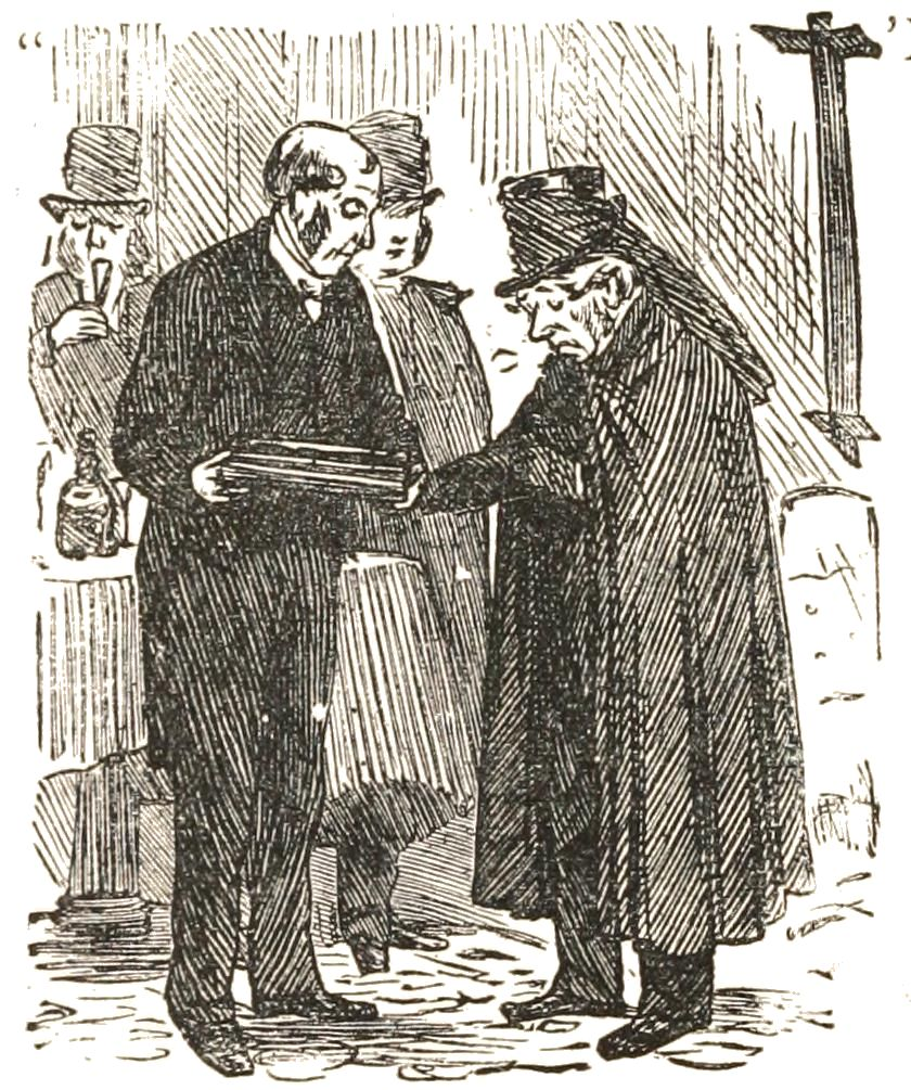 Mr. Caudle a widower; /238. Mrs Caudle's curtain lectures, book by Douglas William Jerrold, a comic series originally published in Punch magazine